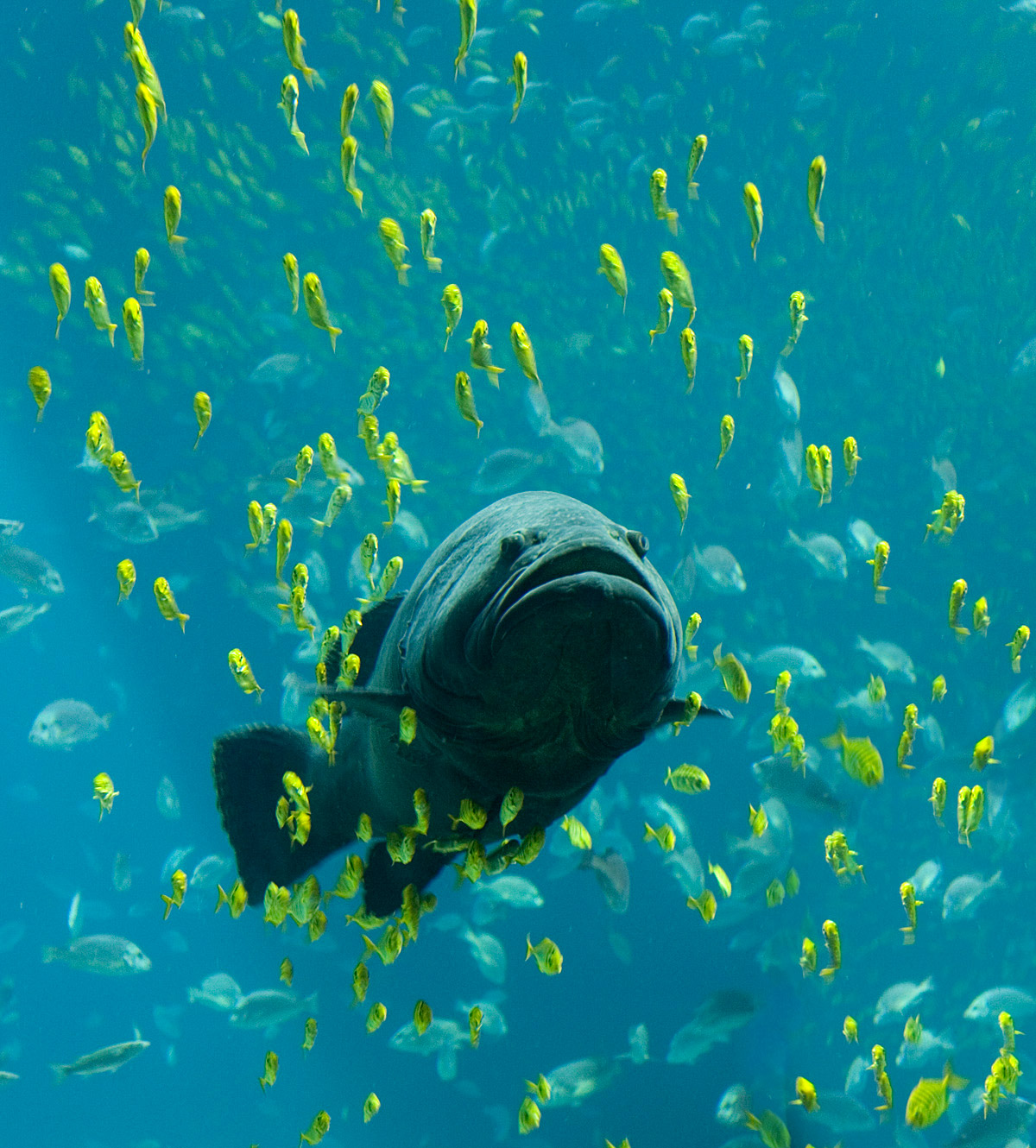 A Giant grouper (Epinephelus lanceolatus) taken at the Georgia Aquarium on January 23 2006 by myself with a Canon 5D and 24-105mm f/4L IS.